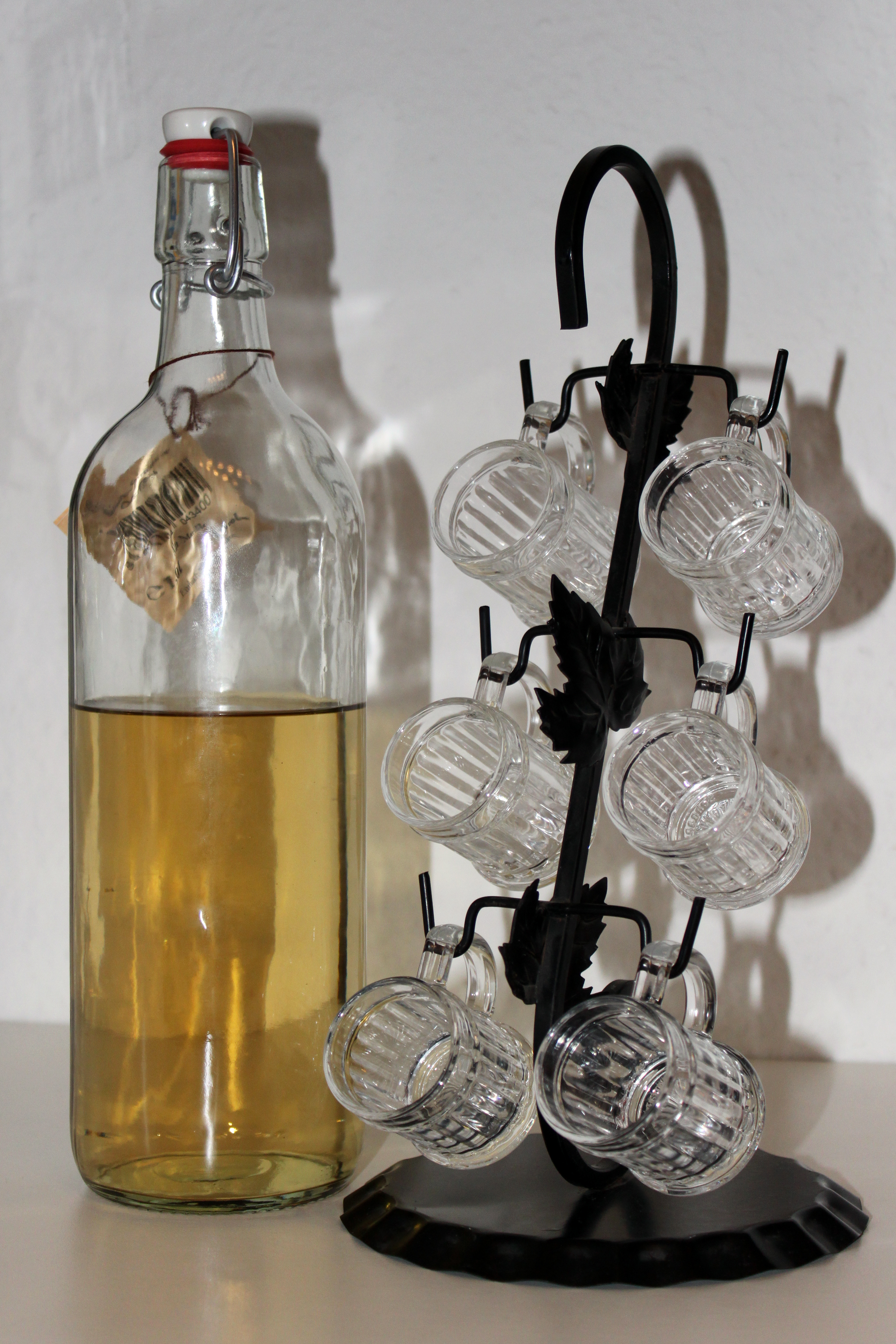 Liquor with matching glasses